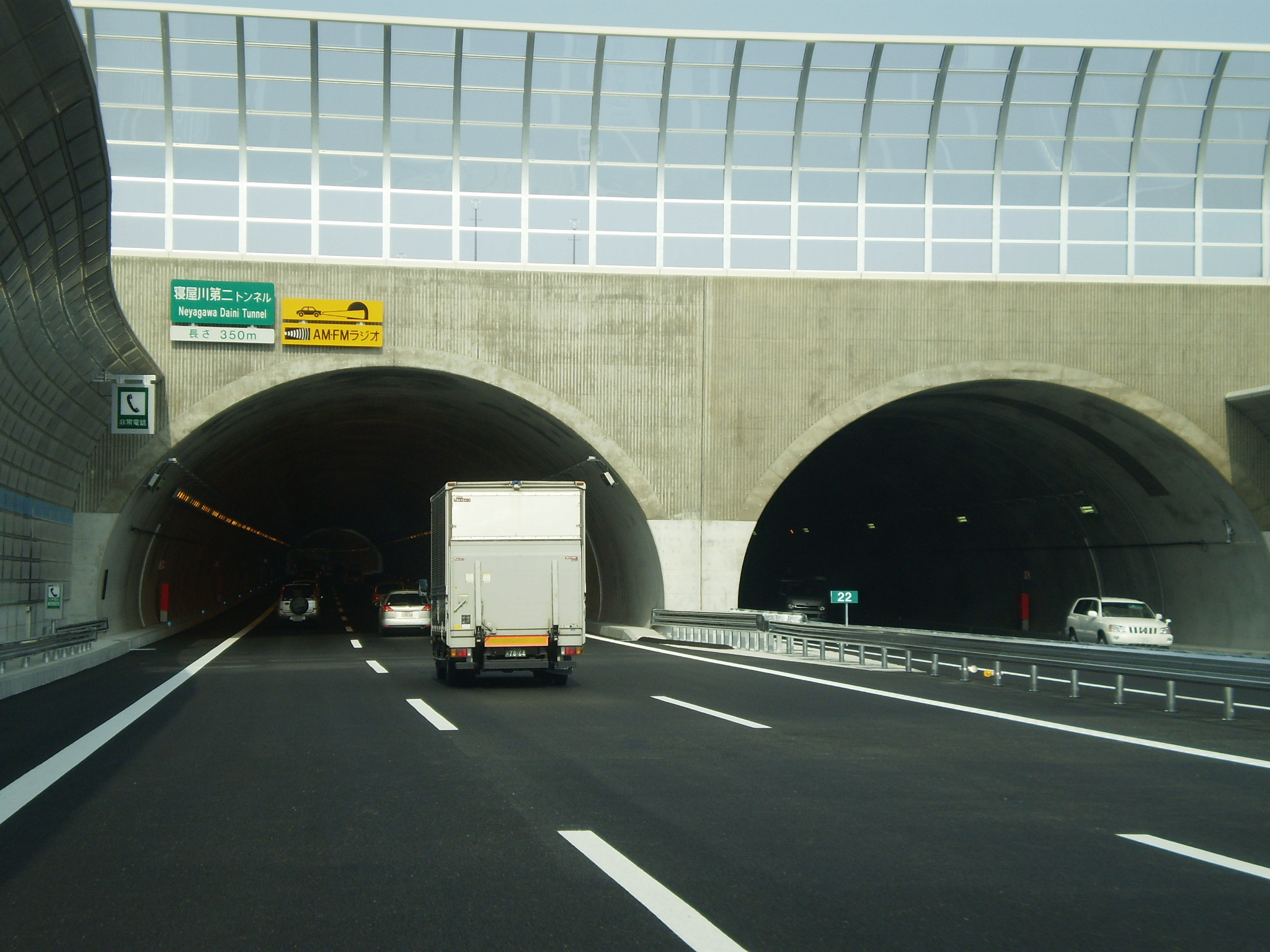 Daini keihan road. I took this image at Takamiya-2chome Neyagawa City Osaka Pref., Japan.